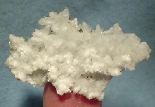 Hydromagnesite Locality: Red Mountain District, Santa Clara County, California, USA (Locality at ) Size: 4.5 x 3.0 x 1.1 cm. Hydromagnesite is an unusual and uncommon hydrated carbonate found as a low-temperature hydrothermal mineral occurring in veinlets in serpentine and altered magnesium-rich igneous rocks. This fine plate consists of snow-white to colorless, feathery and hair-like crystals aggregates and hails from an uncommon California locality - Red Mountain in Santa Clara County. Ex. Ed Ruggiero Collection.